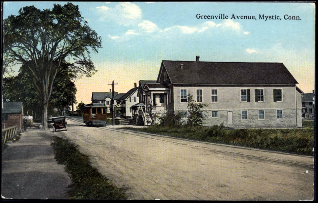 Early divided back postcard of a Groton & Stonington Street Railway on Greenmanville Avenue (mislabeled as Greenville Avenue) on the Old Mystic Branch